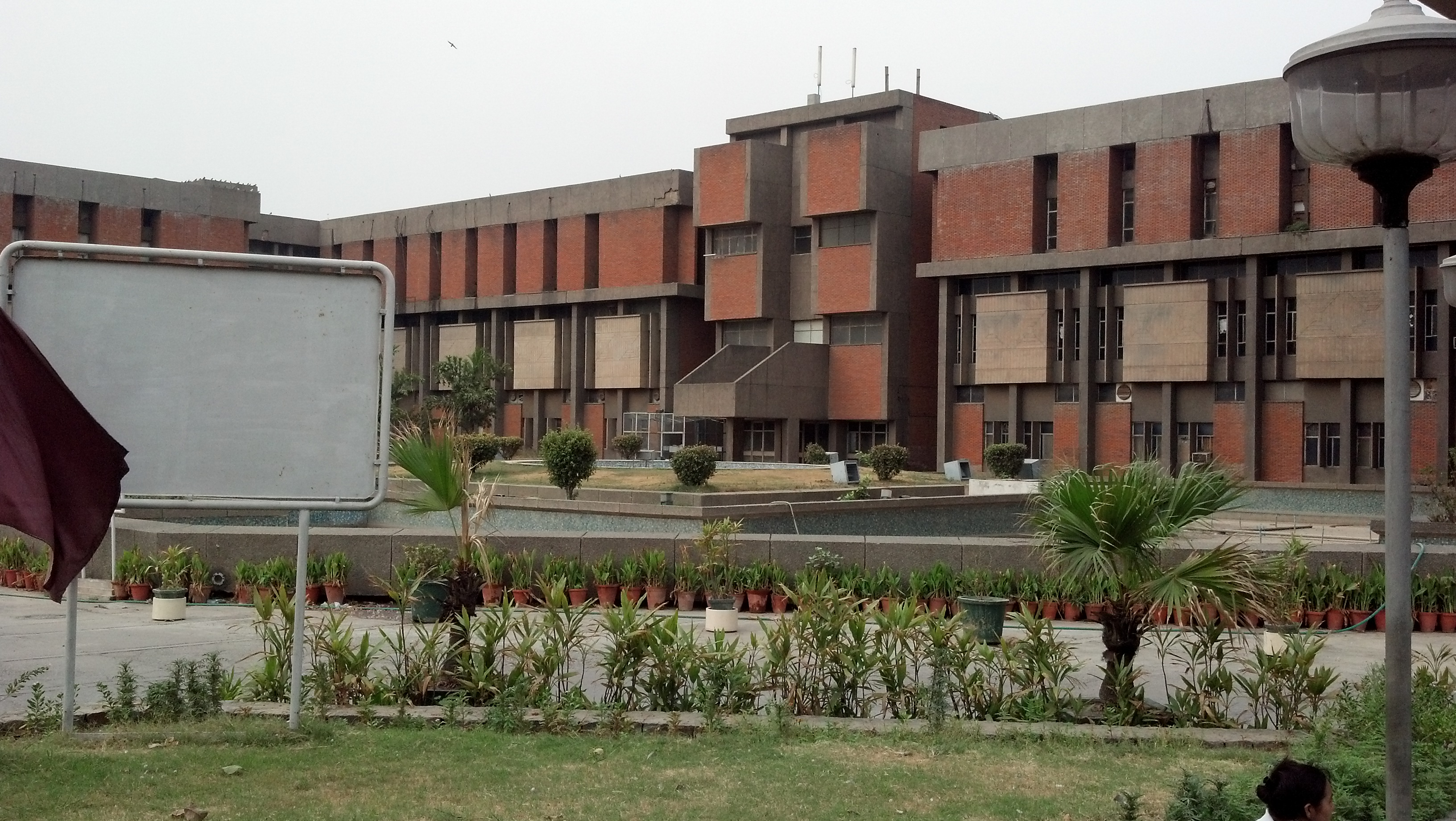 This building houses the communication labs.